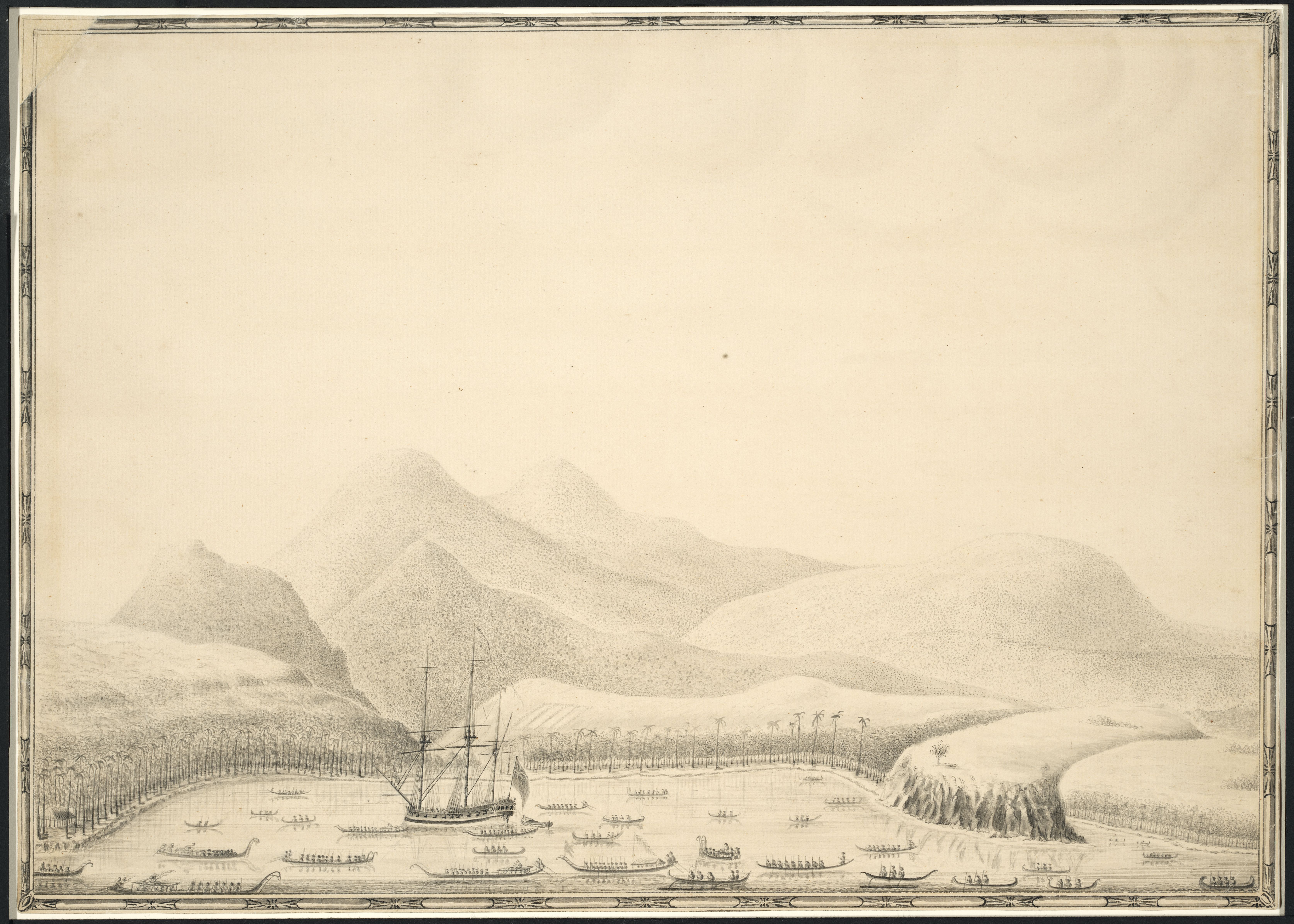 Otaheite (i.e. Tahiti) or King Georges Island by Samuel Wallis (1728–1795)